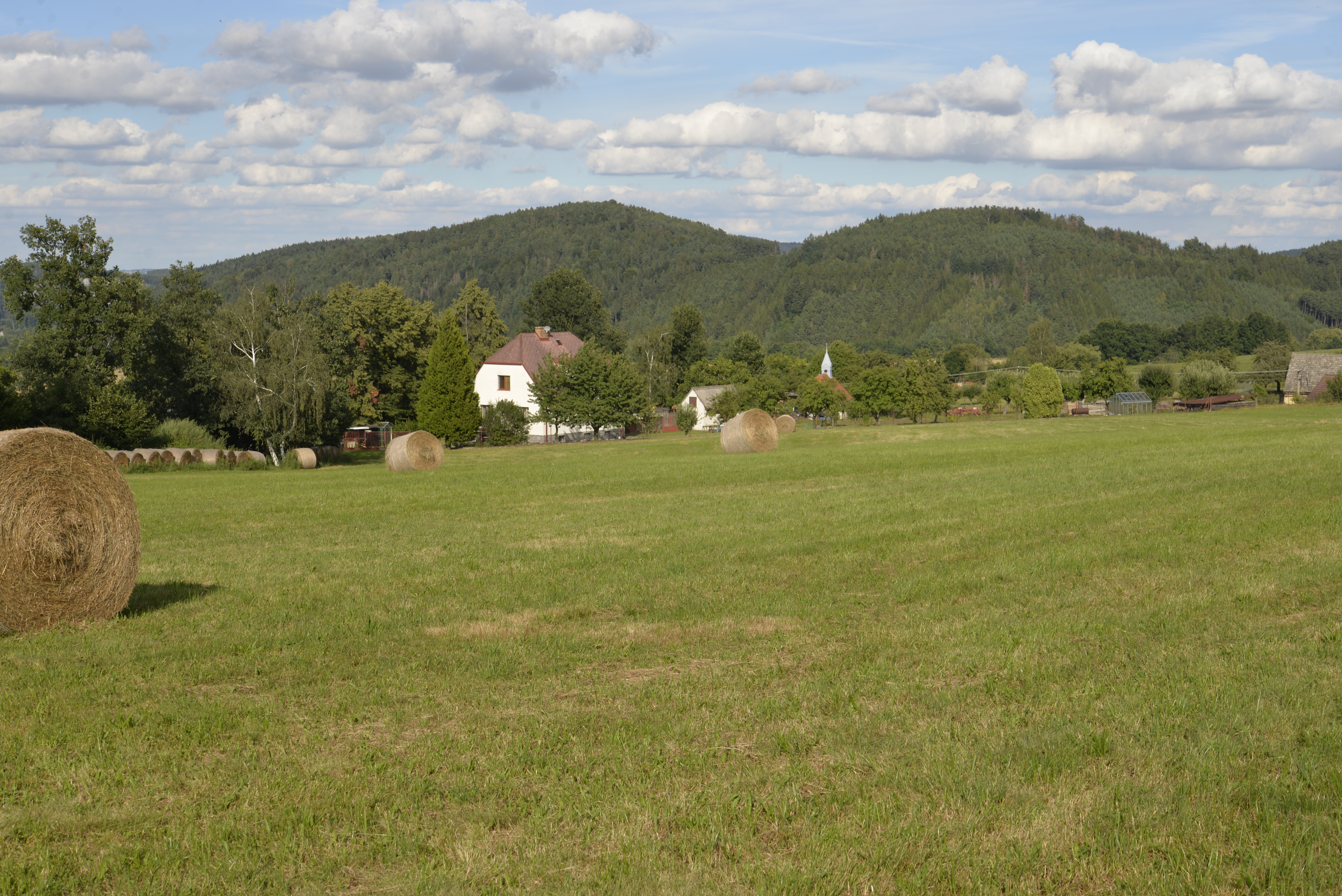 Velká Chmelná, part of Chmelná - part of city Sušice in Klatovy District